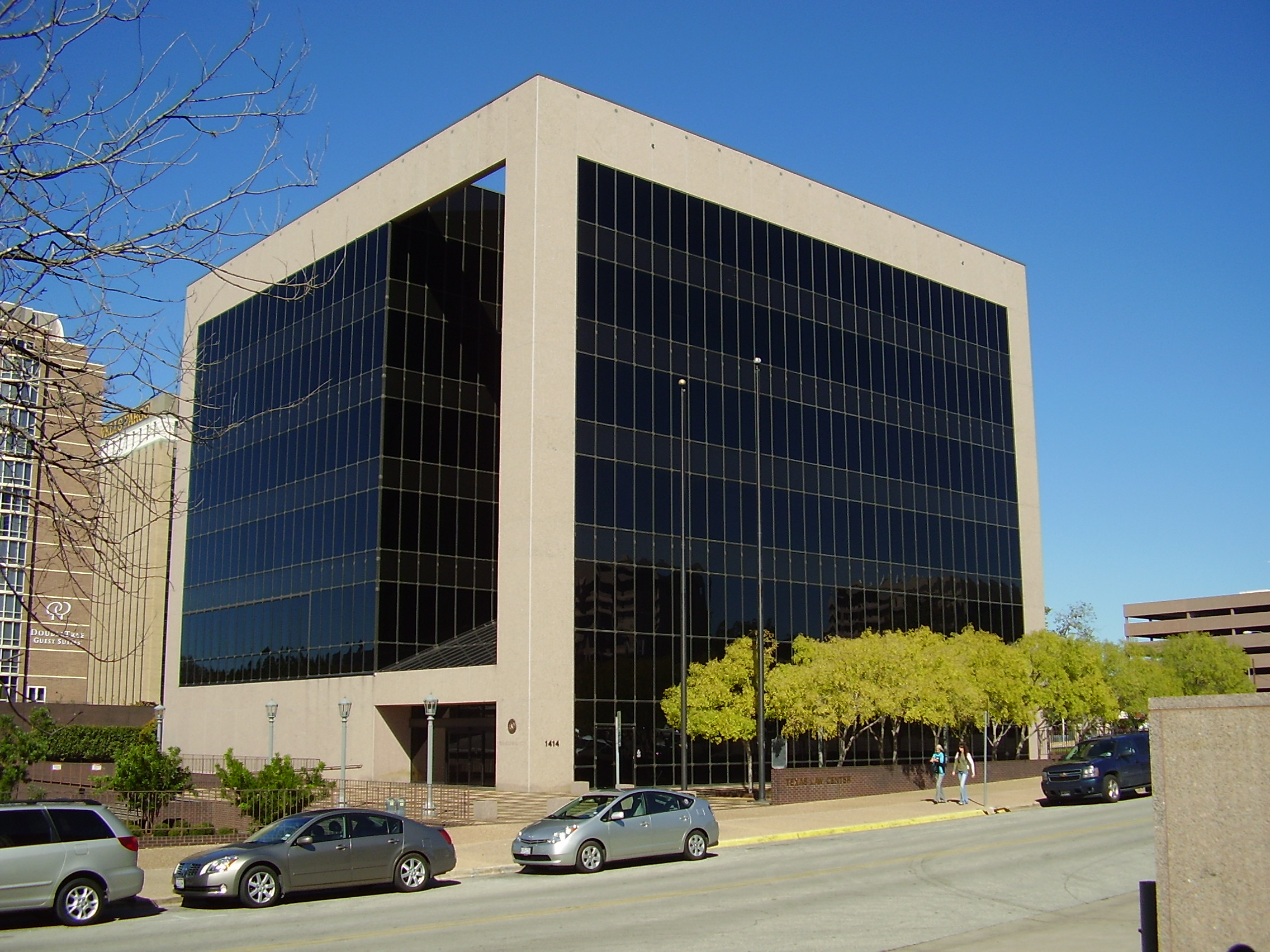 The Texas Law Center - Has the offices of the State Bar of Texas